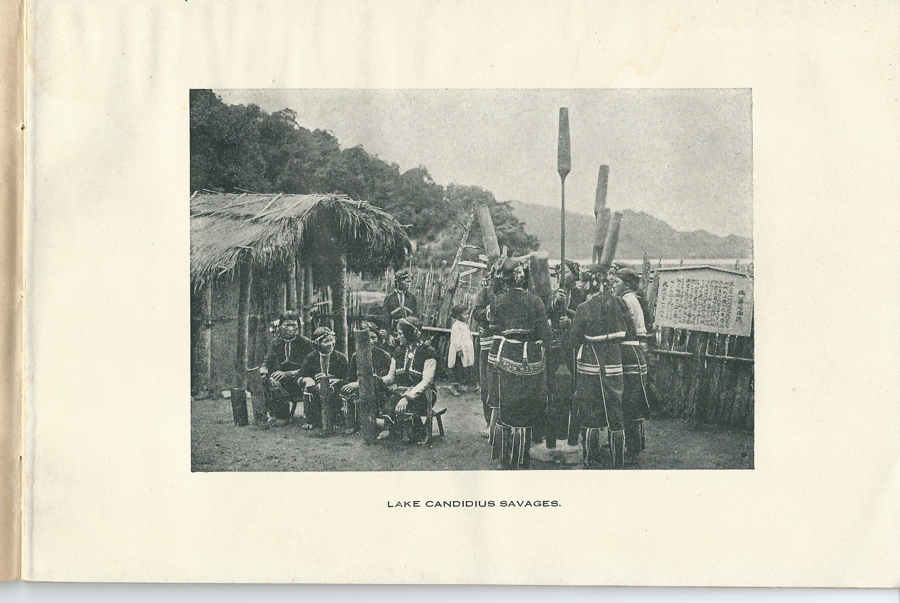 A page from a 1926 govermental report on tribal life in Formosa under Japanese rulership.